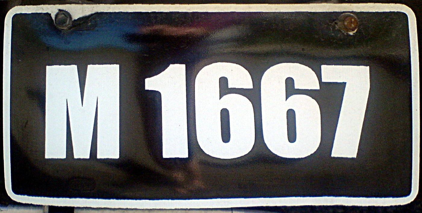 automobile licence plate „M 1667“ (new design)